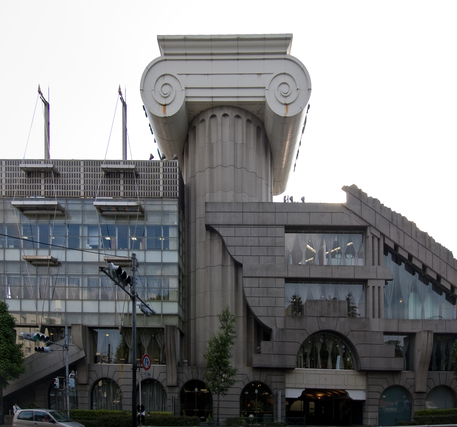 M2 Building, at Setagaya, Tokyo, Japan, designed by Kengo Kuma in 1991.